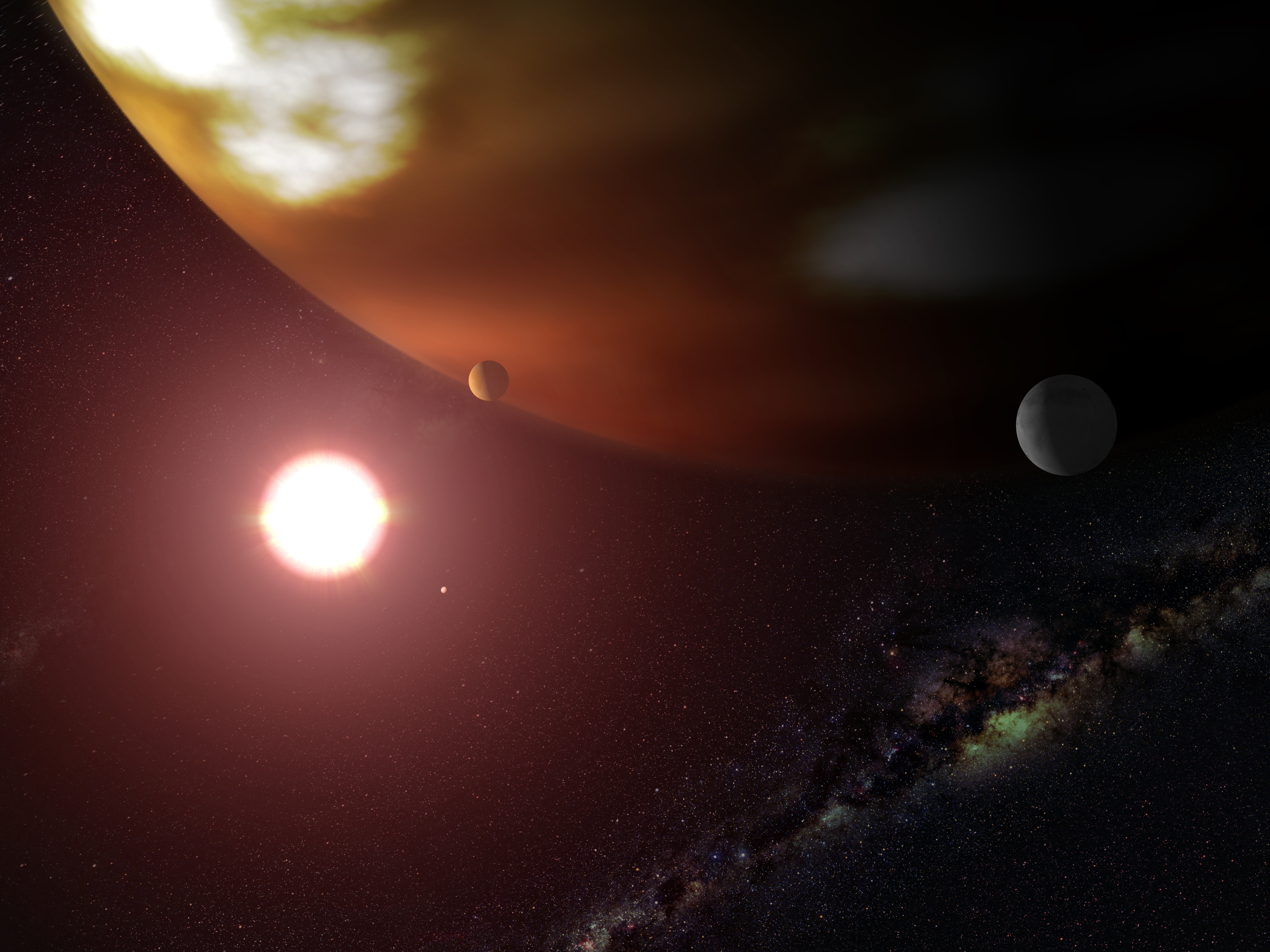 This is an artist's concept of a gas giant planet orbiting the cool, red dwarf star Gliese 876, located 15 light-years away in the autumn constellation Aquarius.